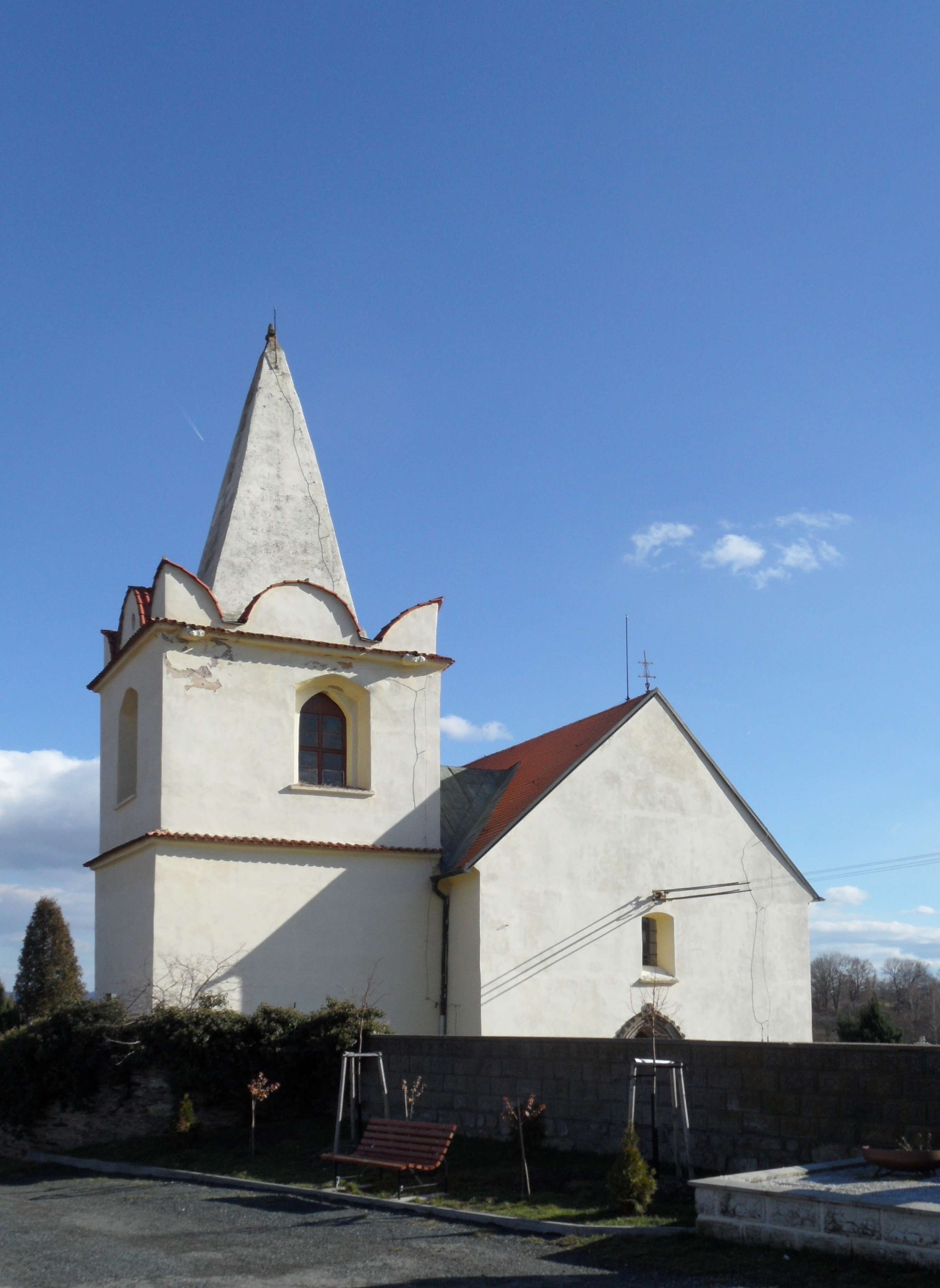 Okřesaneč C. Church of St. Bartholomew, Kutná Hora District, the Czech Republic.